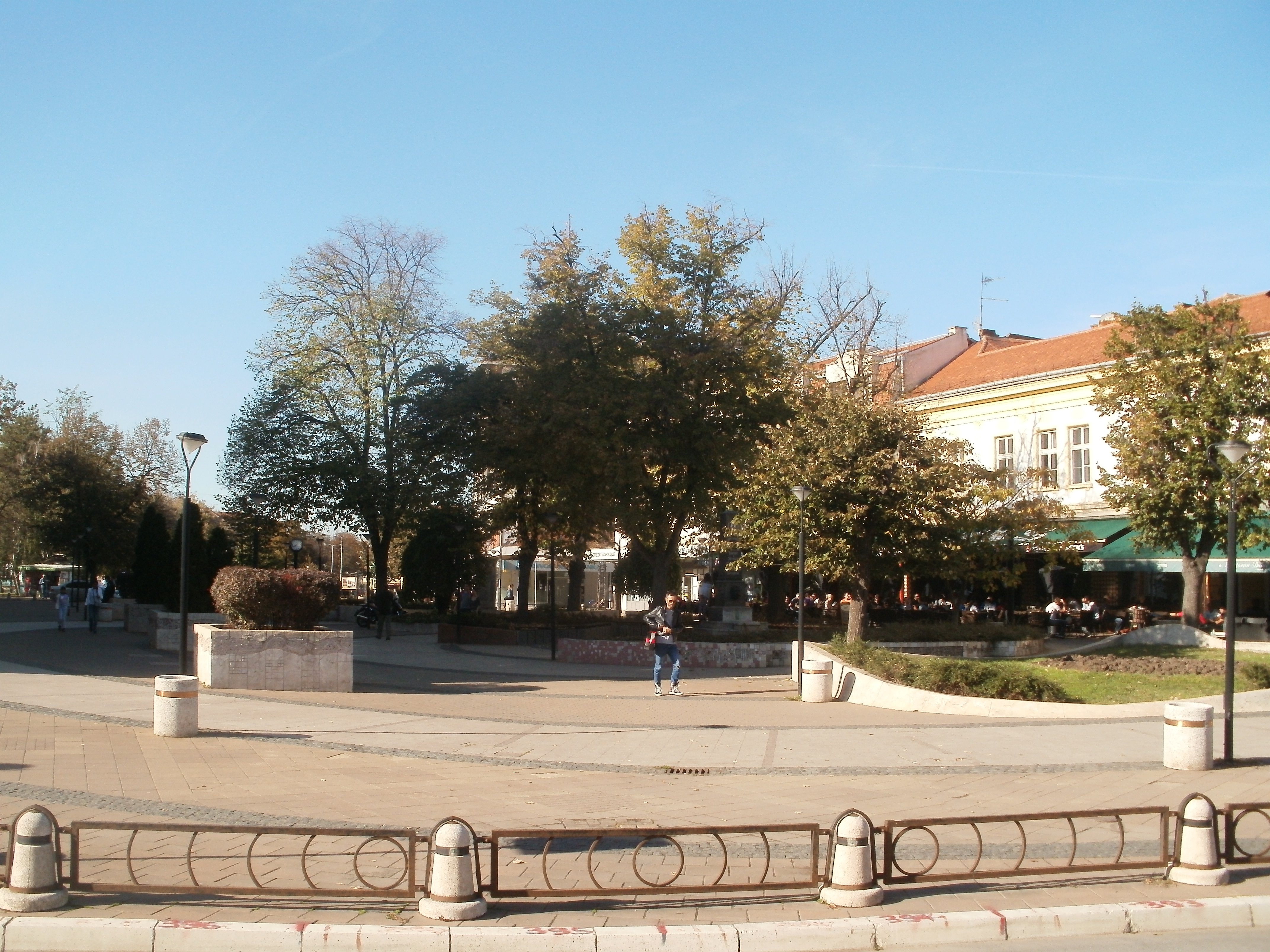 И на тргу лековита вода